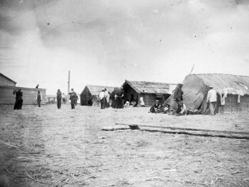 The Marae at Bastion Point, Auckland City, New Zealand in the 1890s. Extended information on origin webpage reads: Photographer unknown :[Orakei Marae, Bastion Point, Auckland, ca 1890] / Reference number: E-571-q-037-2 / 1 photograph(s) on page of scrapbook.. Albumen print, 70 x 97 mm. Horizontal image. / Part of Fraser, I T[allon?] B :[Scrapbook. 1864-1910]. (E-571-q) / Drawings and Prints Collection / Scope and contents: The open main compound of a marae surrounded by buildings, with Pakeha and Maori present, probably on the occasion of Paora Tuhaere's canoe being raced / Conditions governing access: Partial restriction - Use photographic copies in preference to original. / Extended title: From the scrapbook of I. T. B. Fraser and the Breton family. / Other copies available: File PrintIn Drawings & Prints under Artist/Title (DFP-010748)